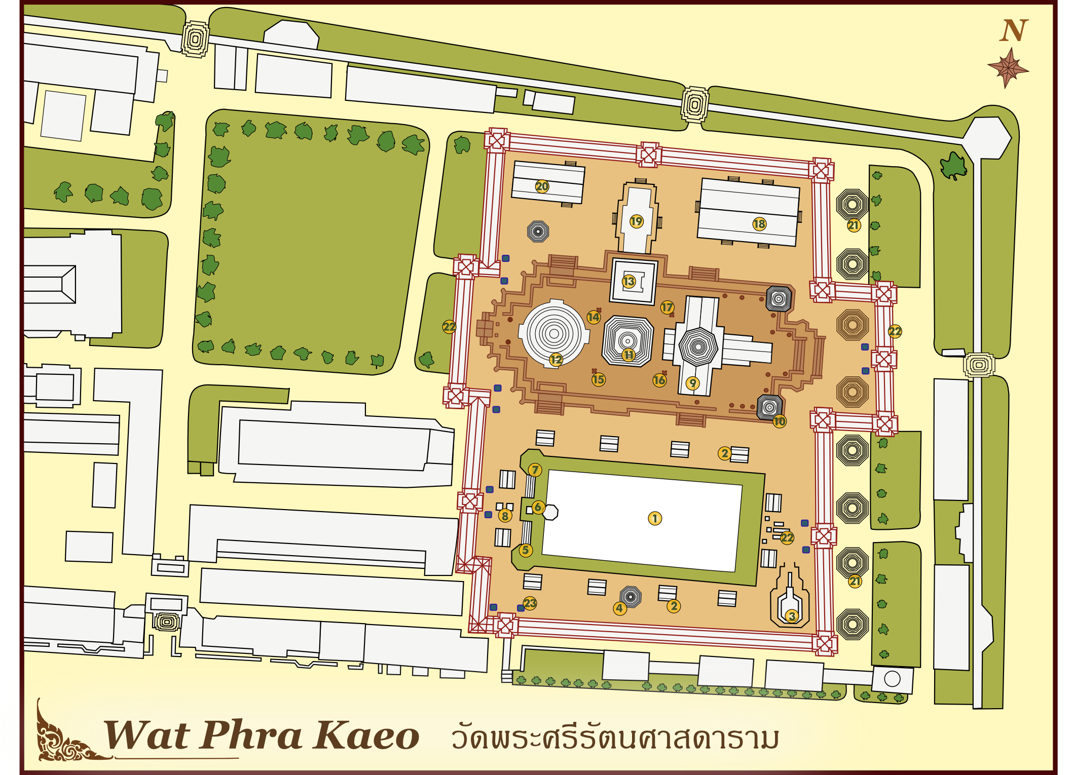 Map of Wat Phra Kaeo, Bangkok, Thailand